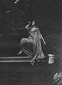 Title Scene from Sanctuary, A Bird Masque, by Percy MacKaye, in rehearsal for first performance at the Meriden Bird Club sanctuary dedication in New Hampshire Summary Photo shows Juliet Barrett Rublee as Tacita the dryad. Contributor Names Genthe, Arnold, 1869-1942, photographer Created / Published 1913 Sept. Subject Headings - Theatrical productions. Format Headings Nitrate negatives. Notes - Address: Cornish, New Hampshire. Title devised from Genthe's records. - Purchase; Genthe Estate; 1942 or 1943. - 1933; NY 8v; NY 18r; NY 90r; RR card; sleeves Medium 1 negative : nitrate ; 5 x 7 in. Call Number/Physical Location LC-G401- 0418-J [P&P]